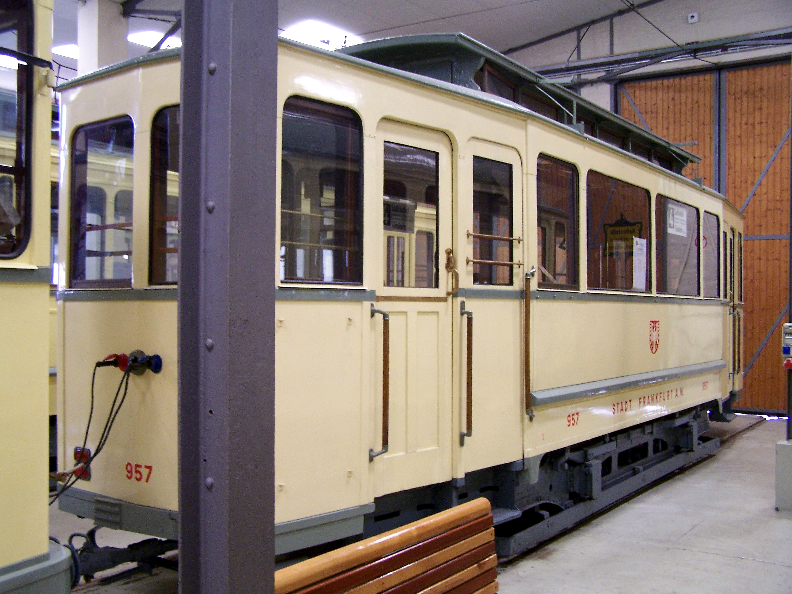 tram trailer type d No 957 in the Frankfurt on Main Transport Museum in Frankfurt am Main--Schwanheim